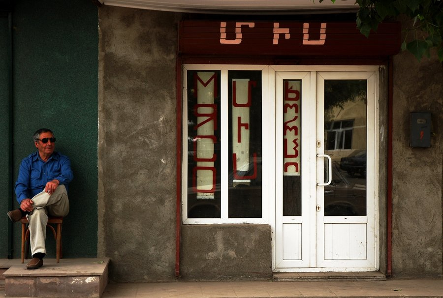 A shop in Ninotsminda, Georgia with signs in Armenian, Georgian and Russian